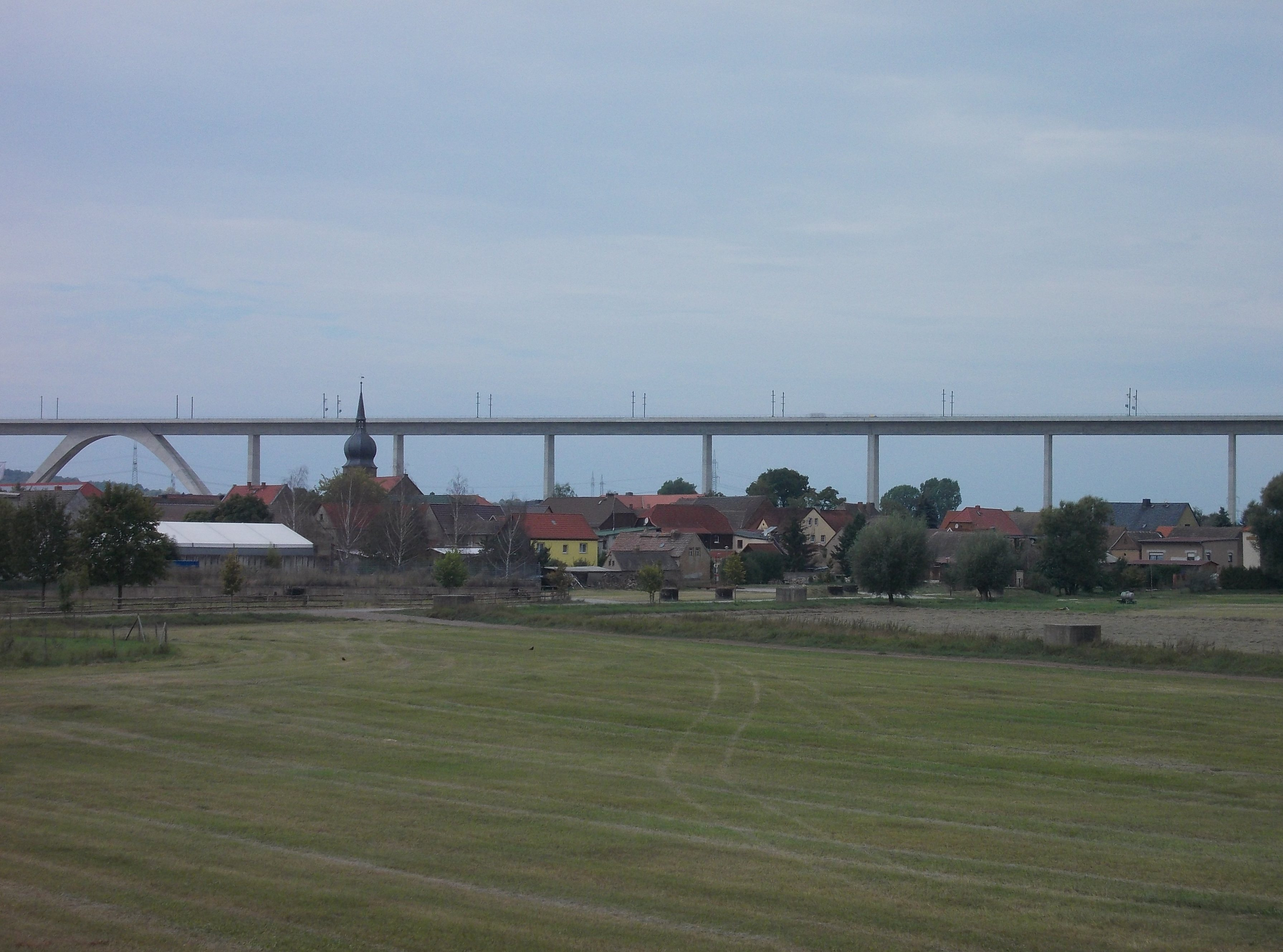 The village of Wetzendorf (Karsdorf, district: Burgenlandkreis, Saxony-Anhalt) with the Unstrut valley bridge of the high-speed railway line between Halle/Leipzig and Erfurt